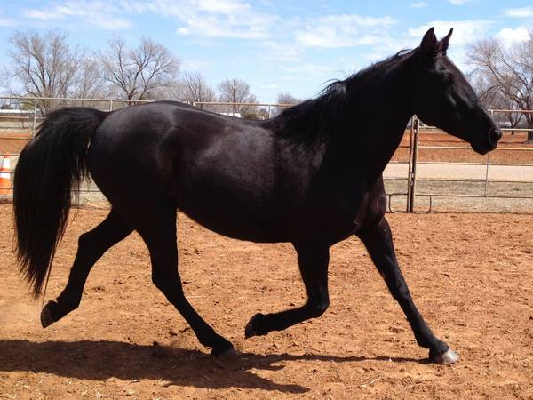 Missouri Fox Trotter mare